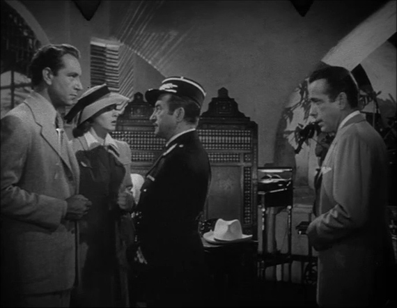 Screenshot of Paul Henreid, Ingrid Bergman, Claude Rains and Humphrey Bogart from the trailer for the film Casablanca.